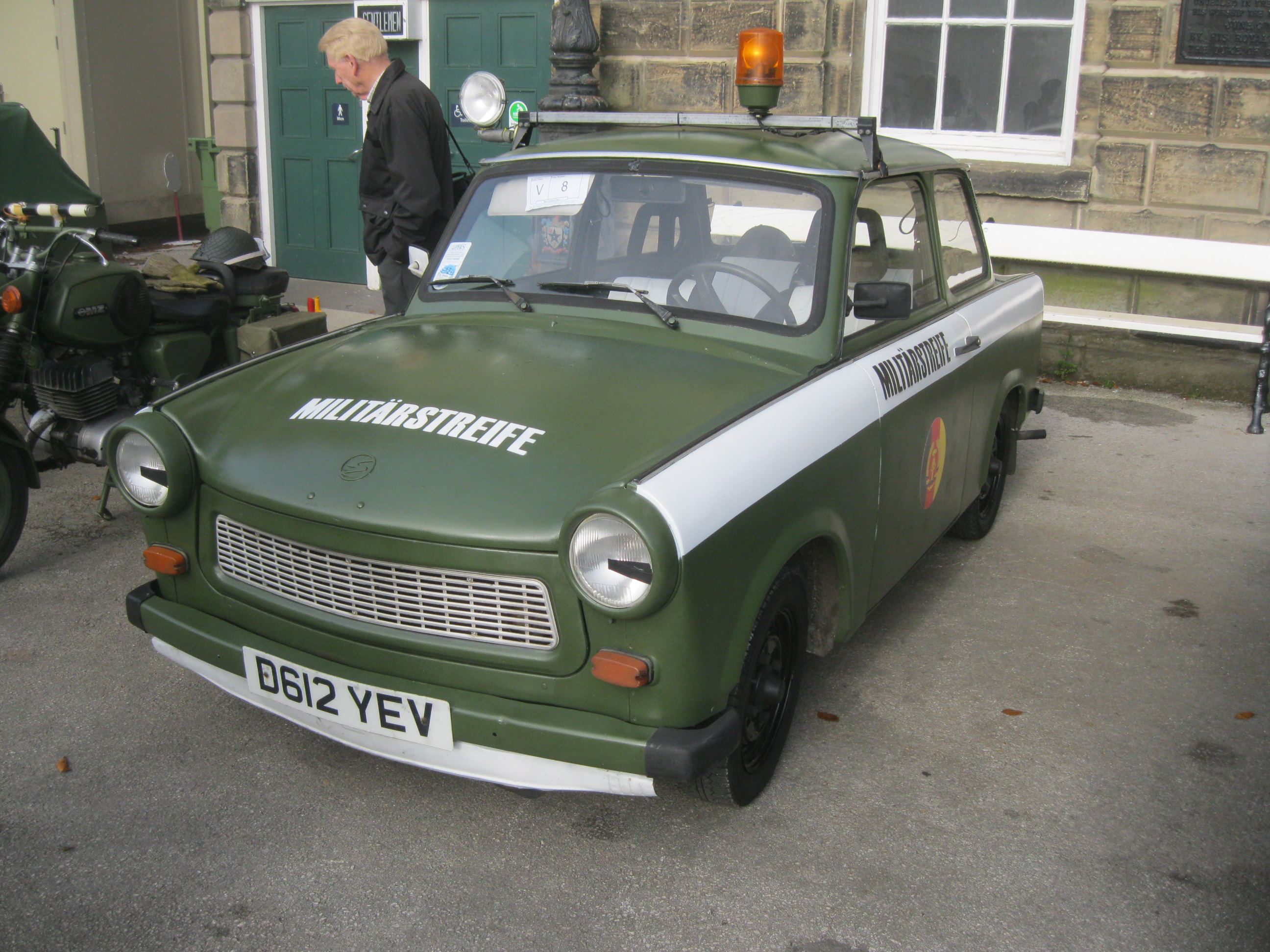 Military Police version of the Trabant 601 from the former DDR. Spotted at the Red Oktober Day at the Crich Tramway Village, October 2012.